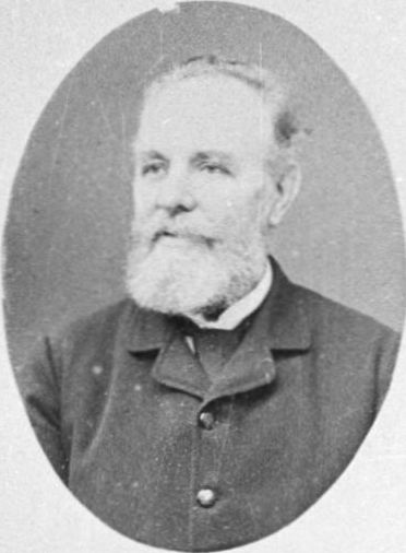 Portrait taken from montage depicting members of the 1882 House of Representatives.